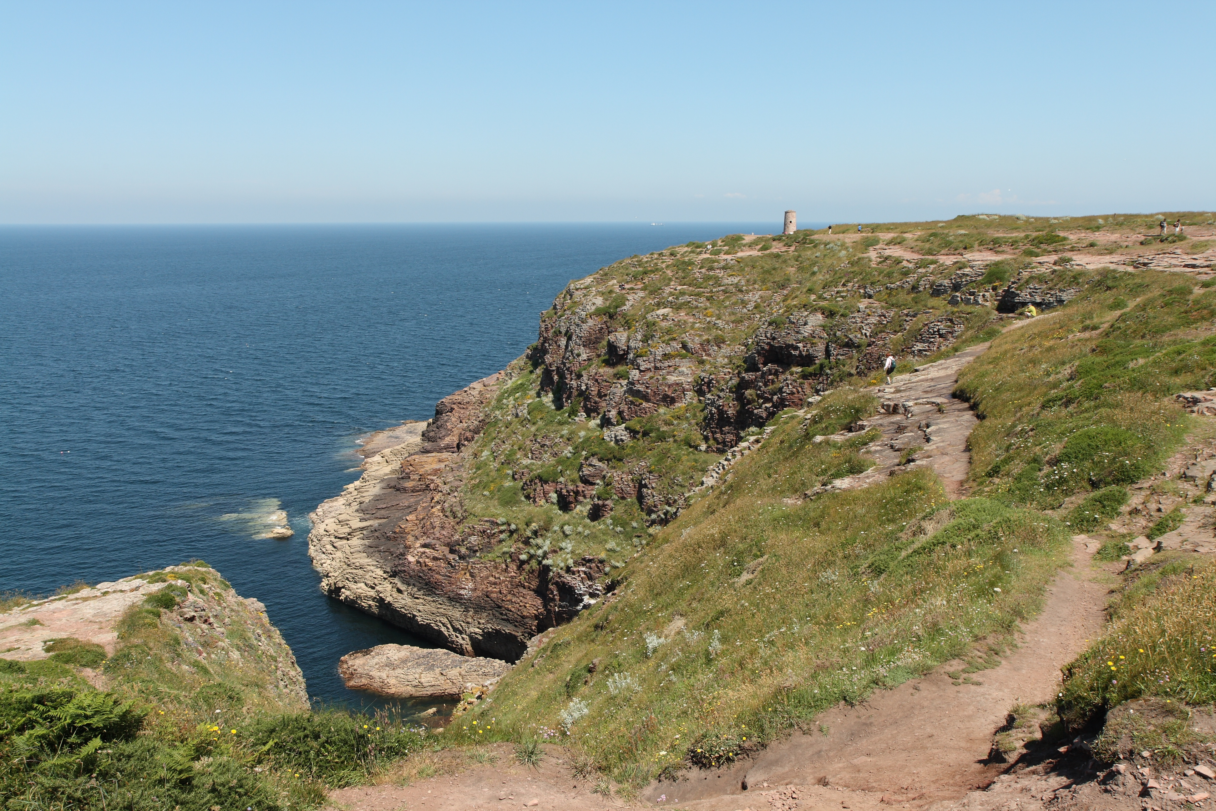 Cap Fréhel peninsula, Brittany, west France